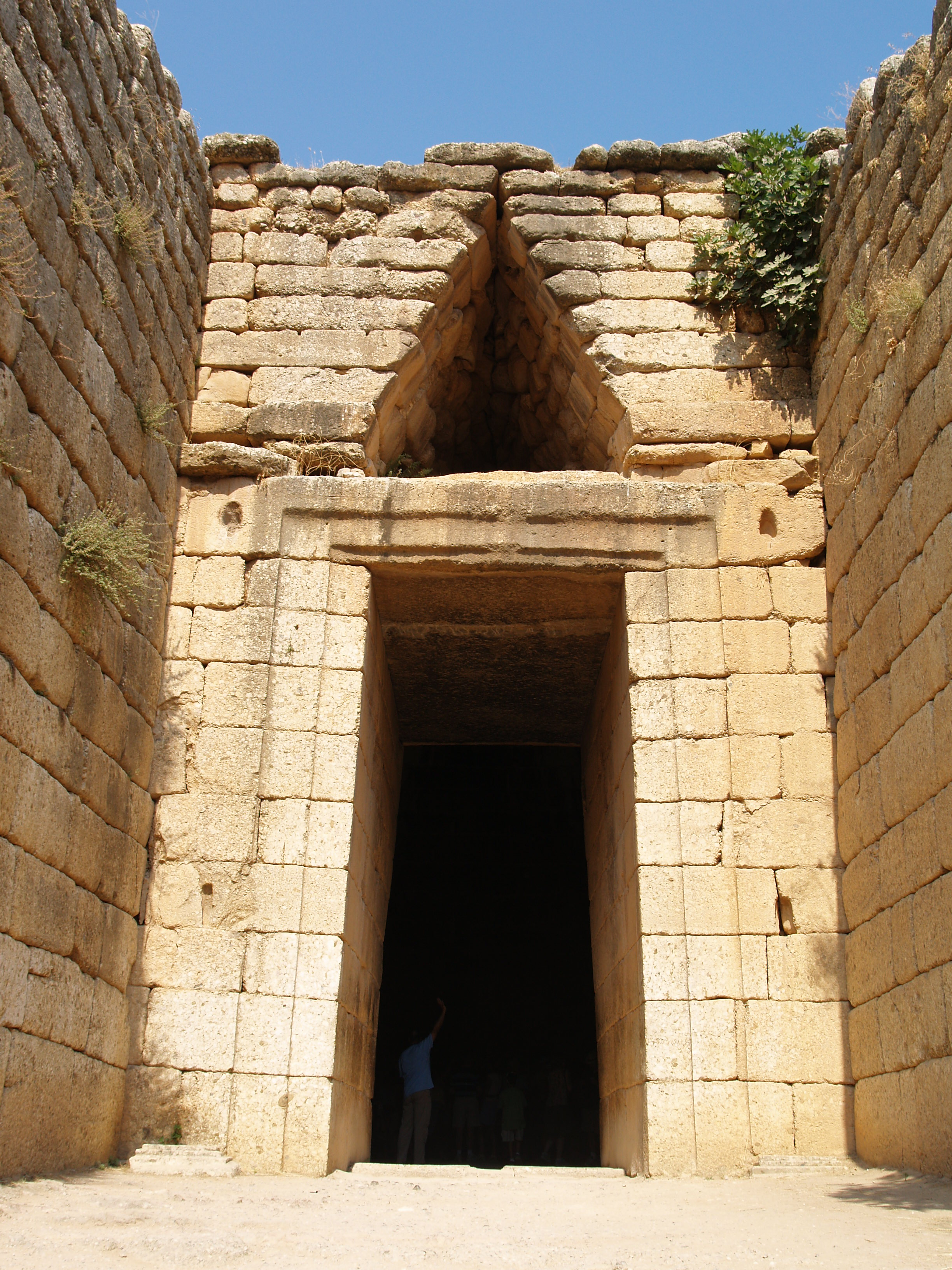 Corbelled arch, Entrance to the Treasury of Atreus, Mykene, Greece.